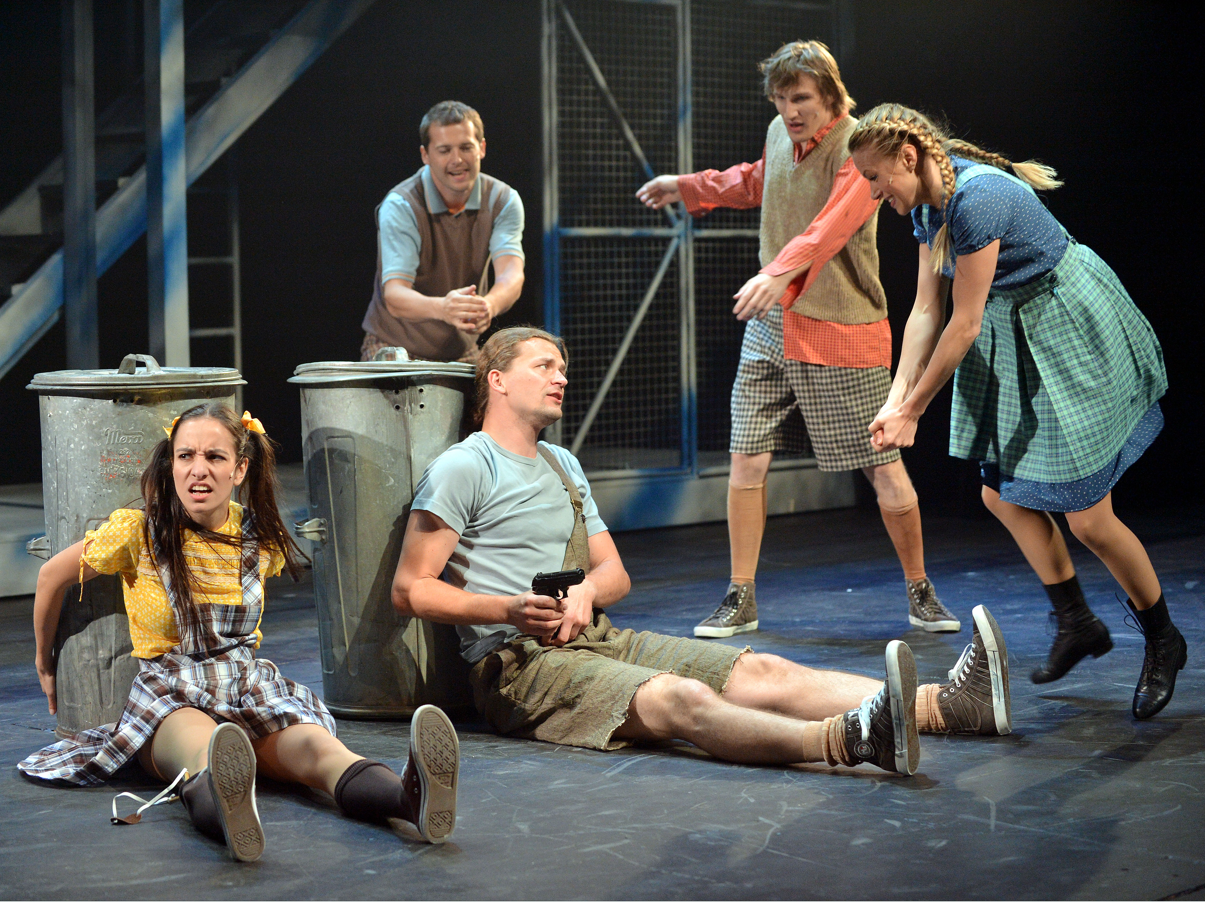 The musical Blood Brothers by Městské divadlo Brno (from the left: Svetlana Janotová, Dušan Vitázek, Martin Křížka, Jakub Zedníček, Johana Gazdíková)